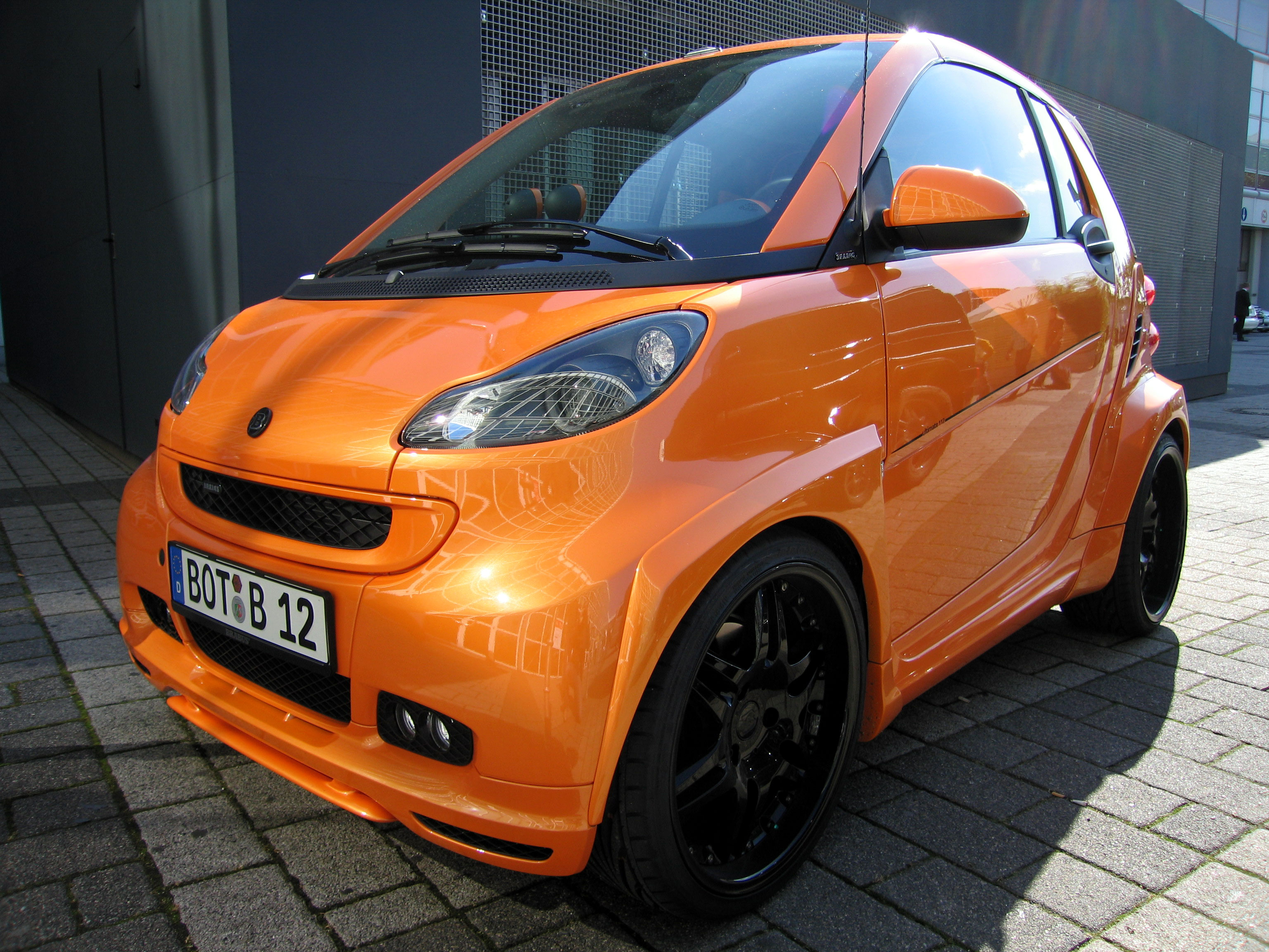 Smart fortwo coupé Brabus at the IAA 2007